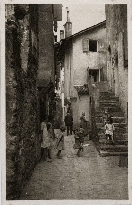 Cecile Machlup (1868–1938) - Gorizia.